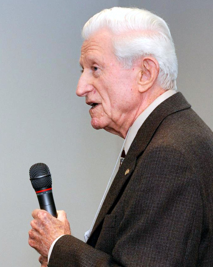 Gene Myron Amdahl at University of Wisconsin – Madison Computer Sciences Department in San Jose, California.